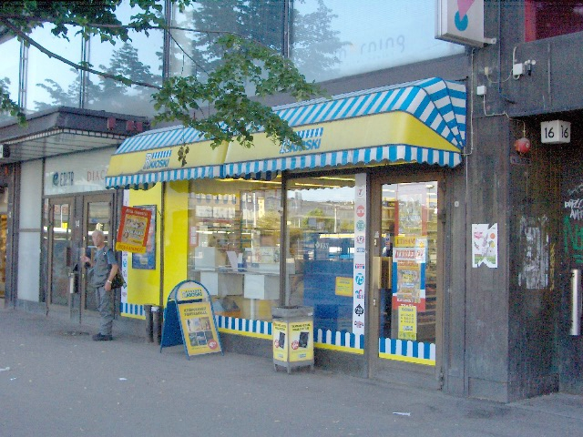 Photo of R-kiosk in Helsinki in June 2006